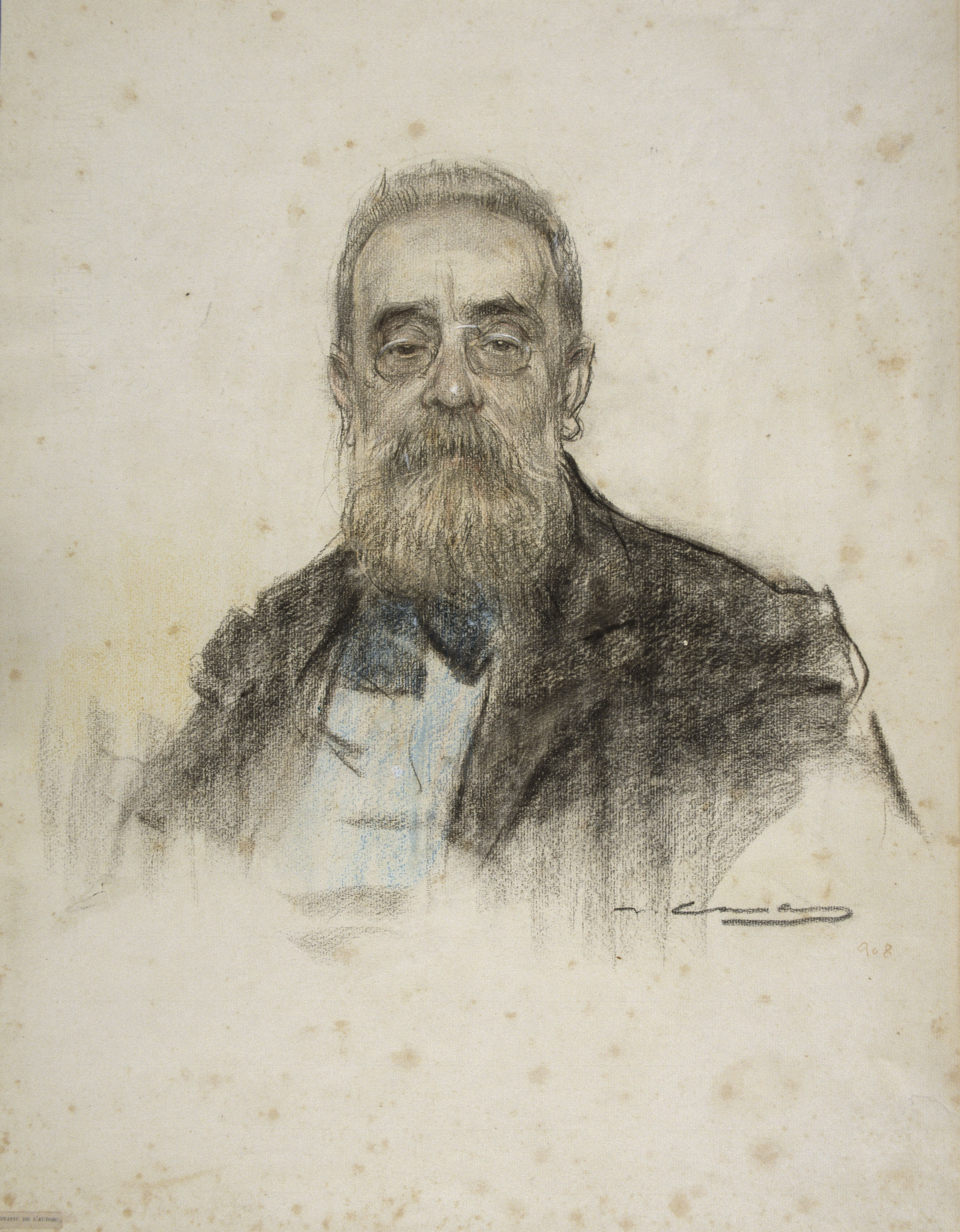 Portrait by Ramon Casas conserved at MNAC in Barcelona. Imagen 033